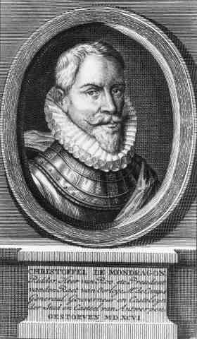 Cristóbal de Mondragón (1504-1596), Spanish colonel in the Eighty Years' War